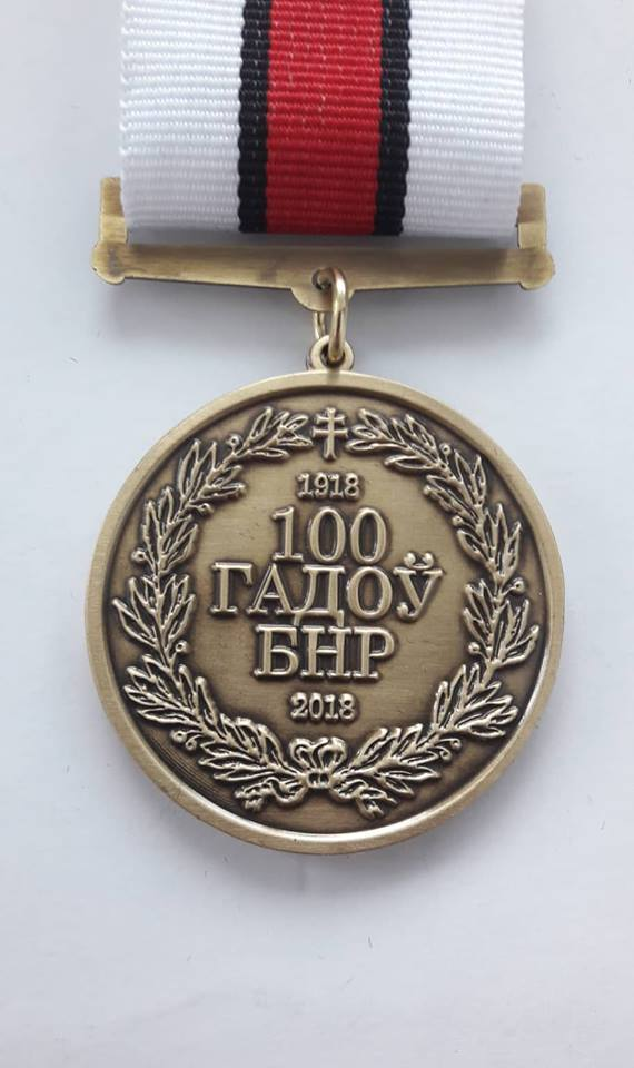 Belarusian People's Republic Centennial Medal